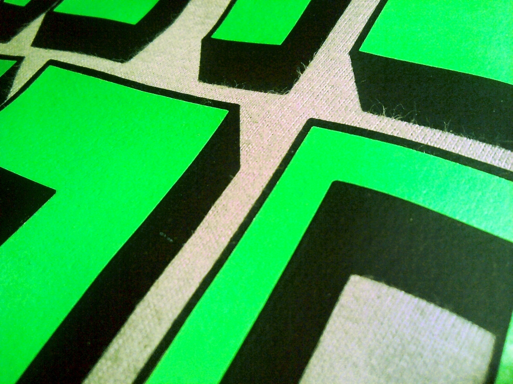 Cotton fabric with a (neon green and black) flex-foil printing. This closeup view is supposed to depict the smooth surface of flex-foils.